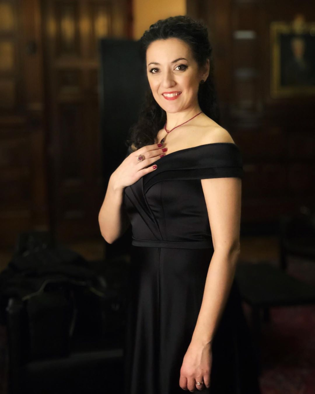 Rosa Feola, New York, January 13, 2020